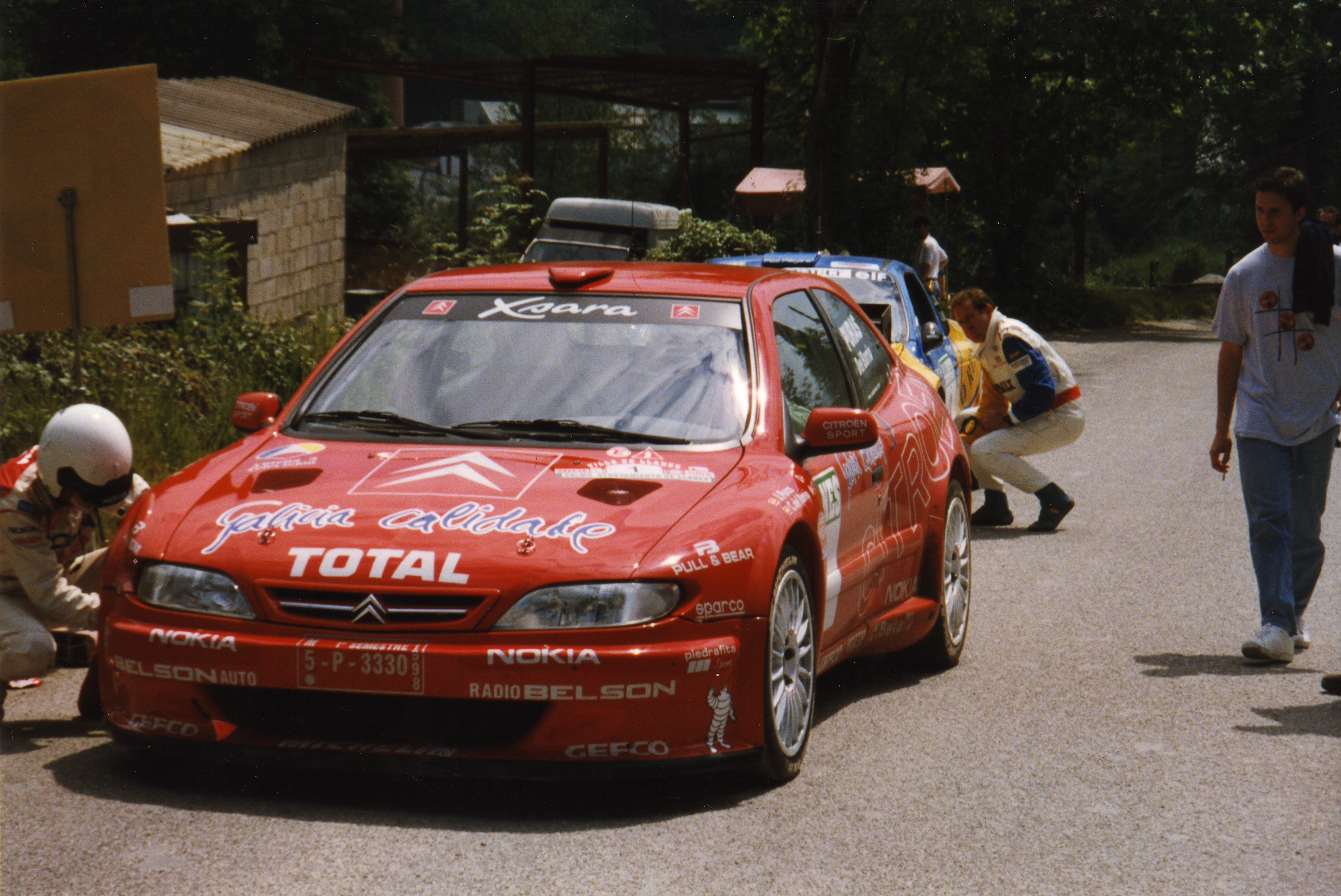 Jesús Puras with a Citroën Xsara Kit Car at the 1998 Rallye Villa de Llanes.